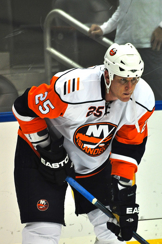 Andy Sutton, playing for the New York Islanders.